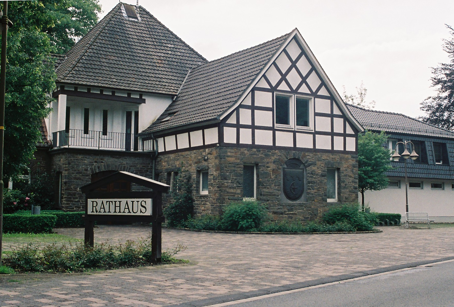 Town hall of the municipality Ruppichteroth, locality Schönenberg.